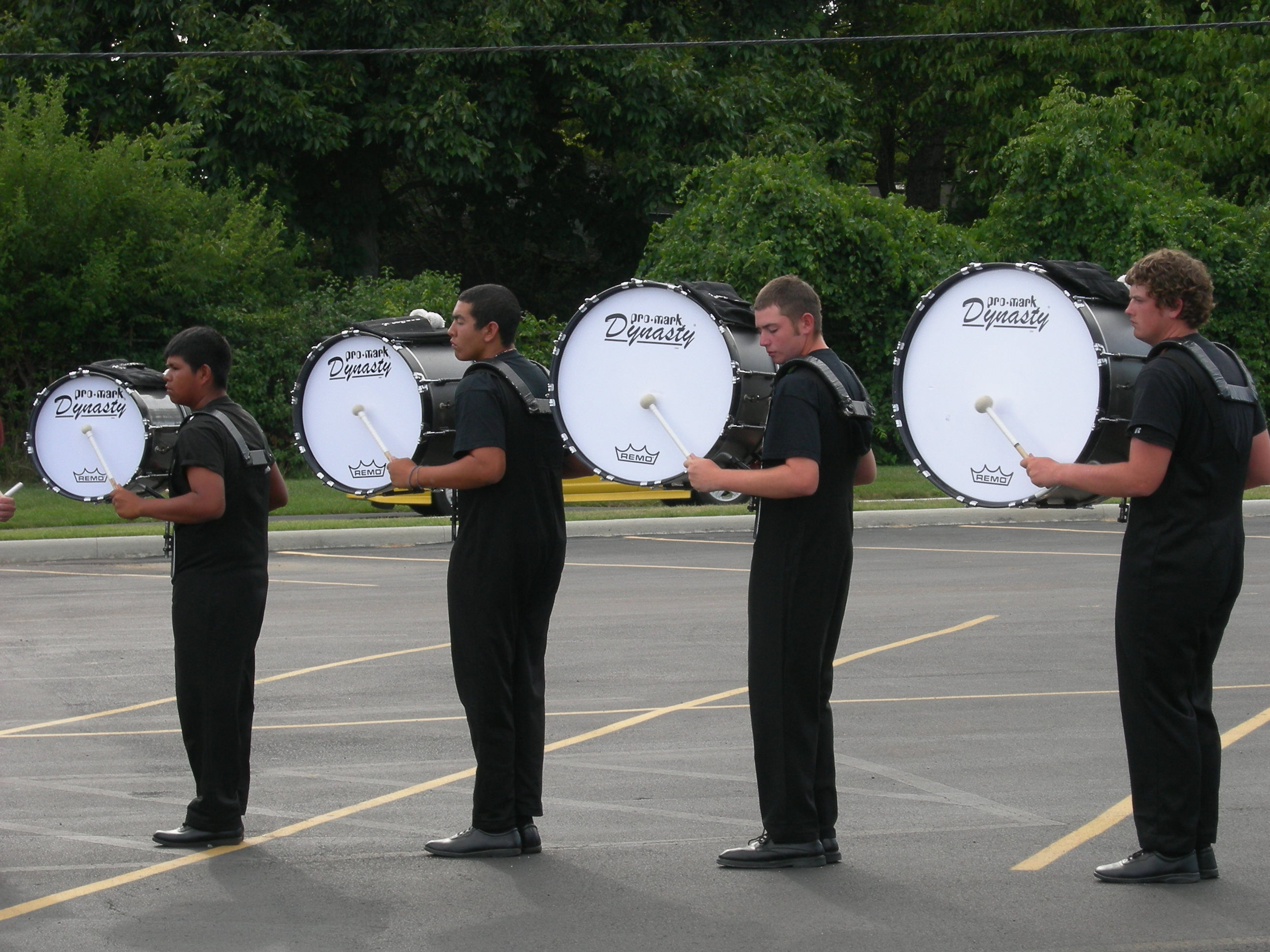 The Revolution Drum and Bugle Corps of Texas warming up at a drum corps show. 2007.